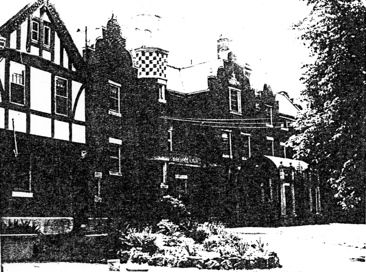 Lewis Cabot Estate, Brookline, Massachusetts. This house has been demolished.